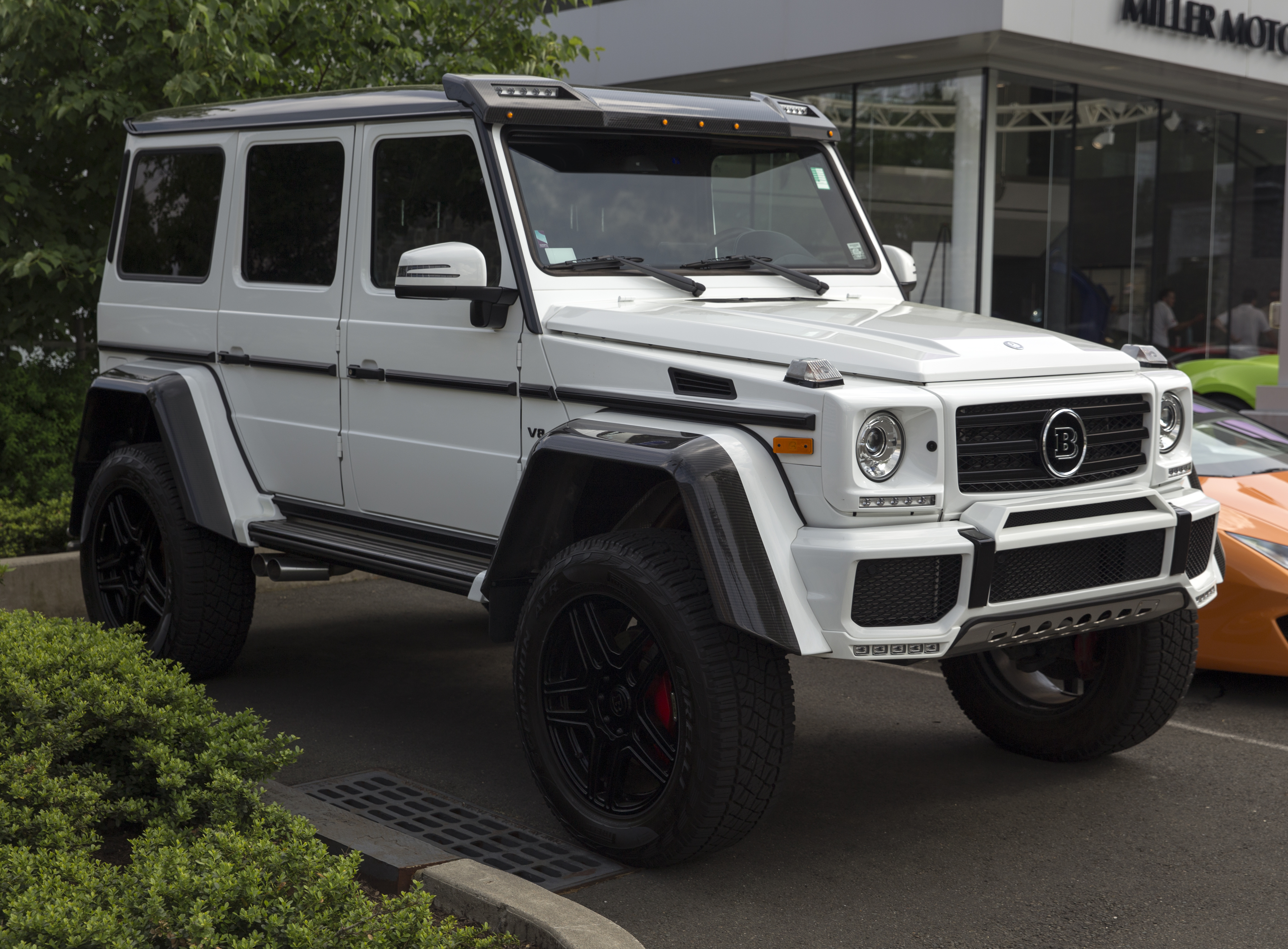 A 2017 Mercedes-Benz G550 4X4² in designo Manufaktur Mystic White with some Brabus bits thrown at it.